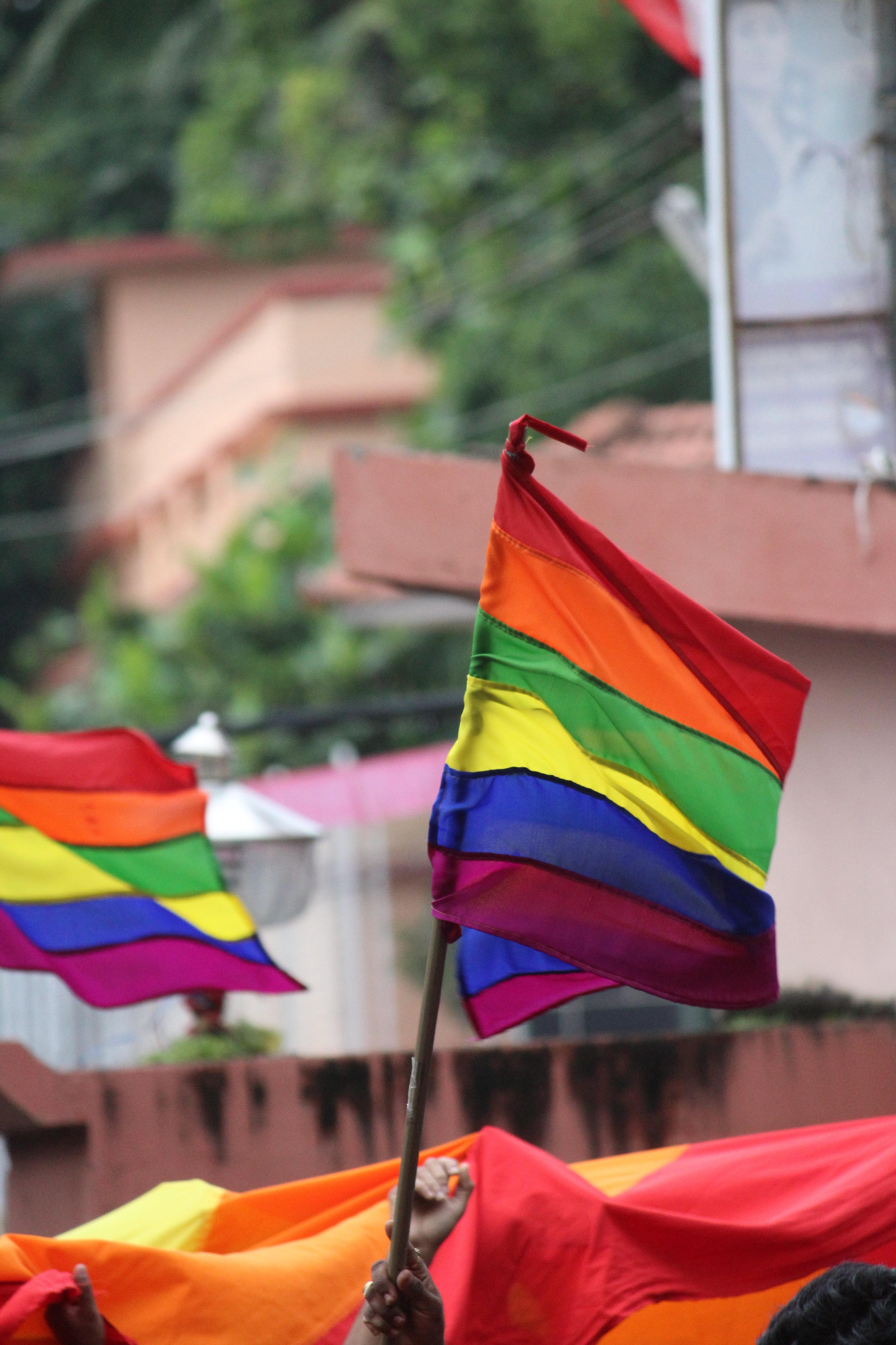 Scenes from the Seventh Queer Pride Kerala March 2016 at Kozhikode, Kerala. Rainbow flag waved at the Tagore Hall Kozhikode.